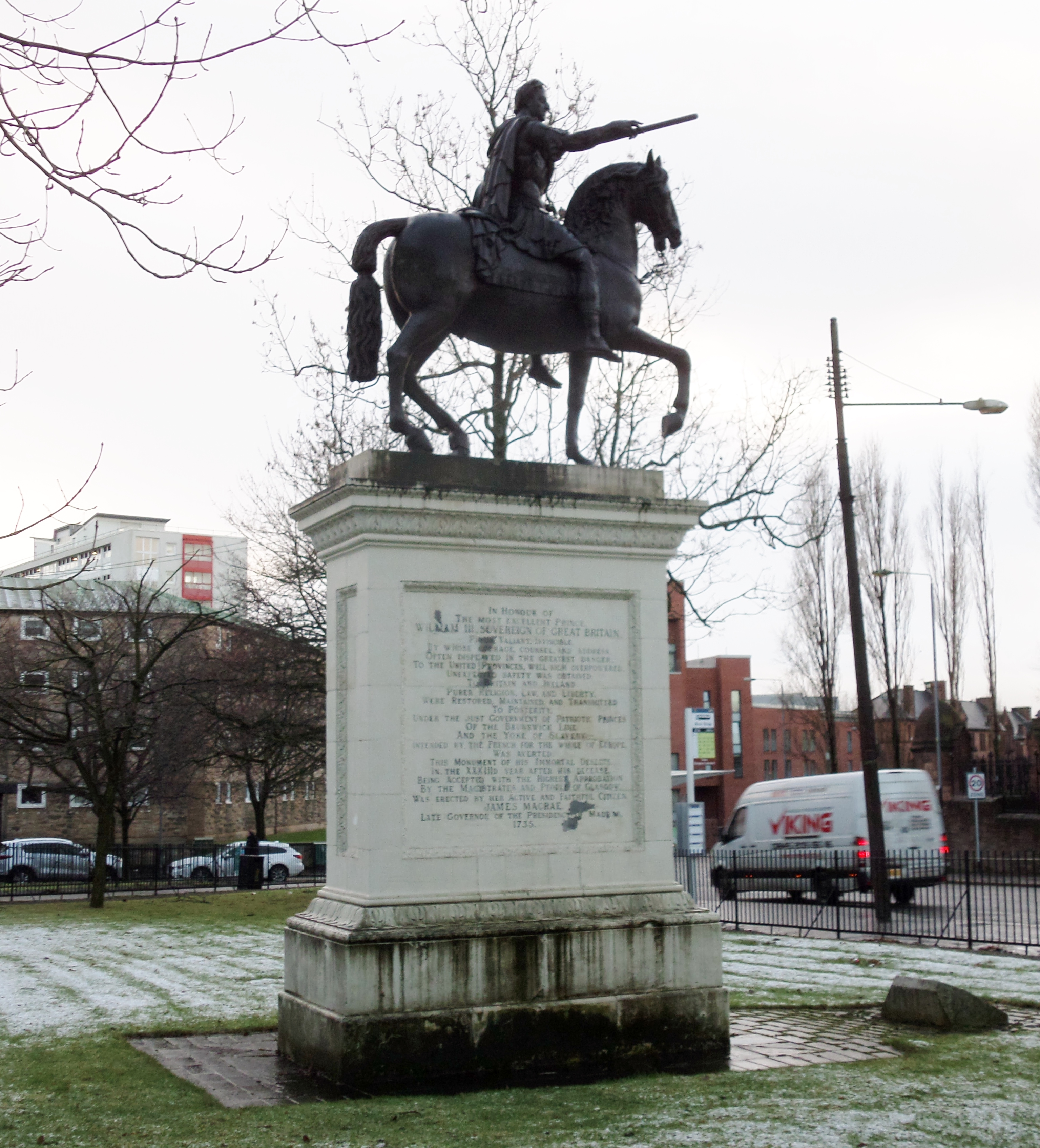 King William III on horseback statue, Glasgow Cathedral Square, Scotland. James Macrae of Orangefield near Prestwick was a great admirer and presented this statue to the people of Glasgow.